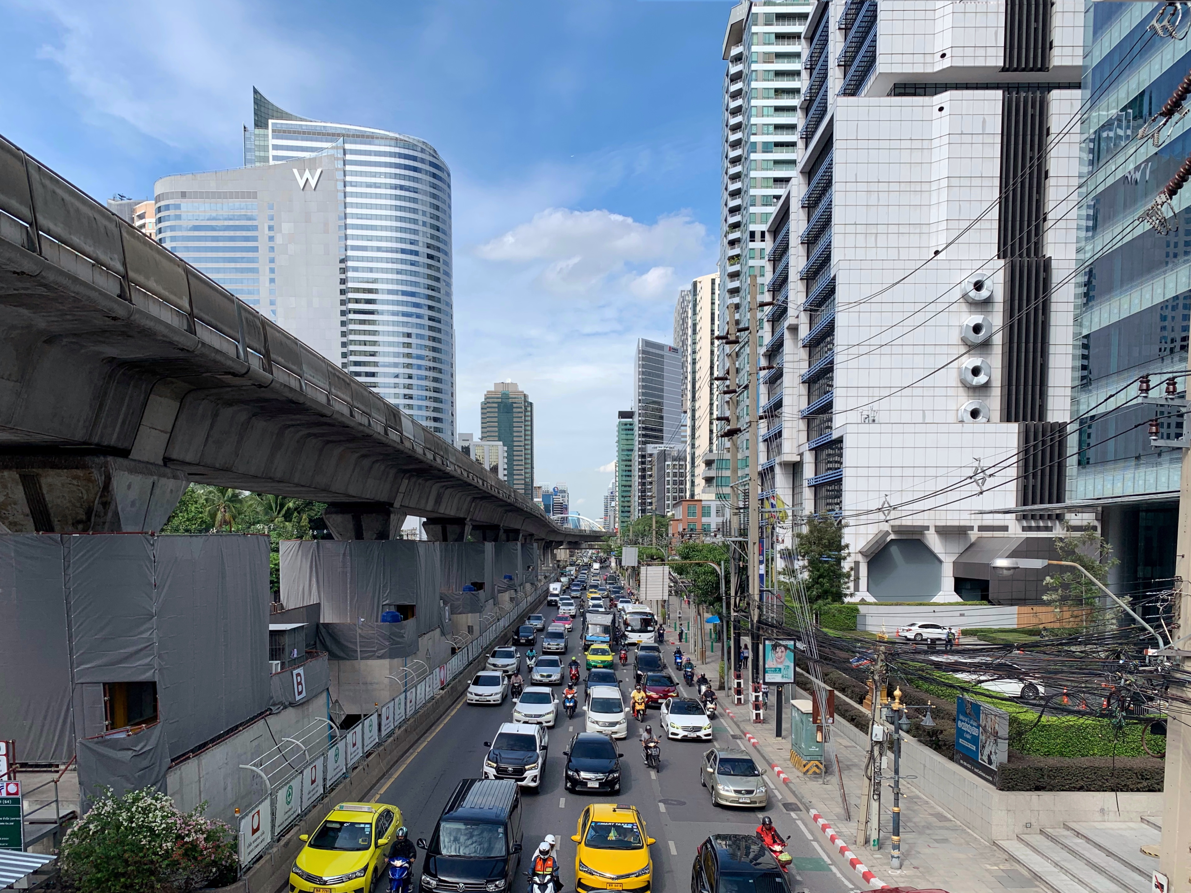 Sathon Tai Road